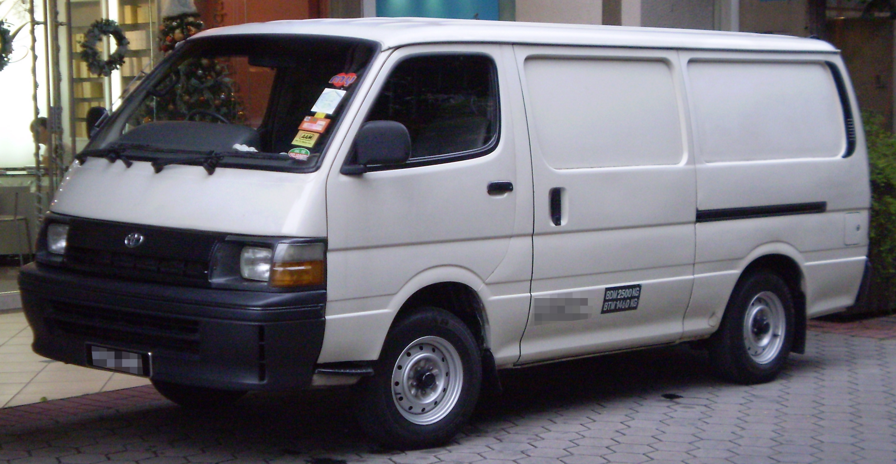 Front quarter view of a fourth generation Toyota Hiace in Seputeh, Kuala Lumpur, Malaysia.